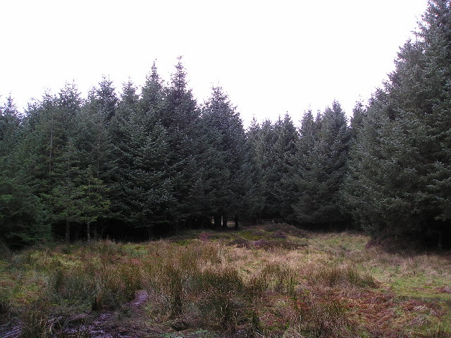 Sitka Spruce. Ladymuir Woodland-Sitka Spruce is the main conifer species planted commercially in the West of Scotland.